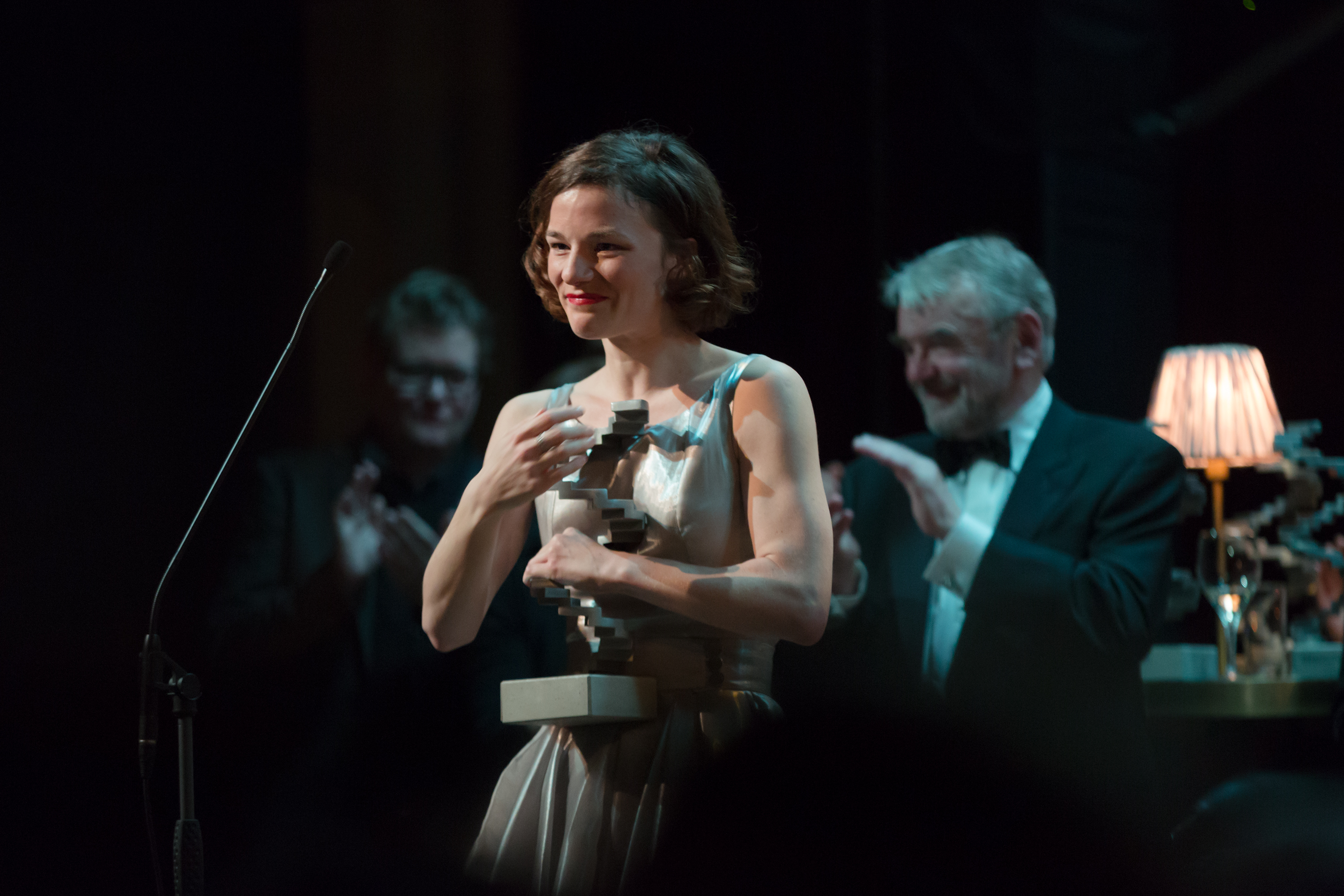 Austrian Film Awards 2017: Valerie Pachner, best actress in a leading role in Egon Schiele: Tod und Mädchen; Rathaus, Vienna, Austria.